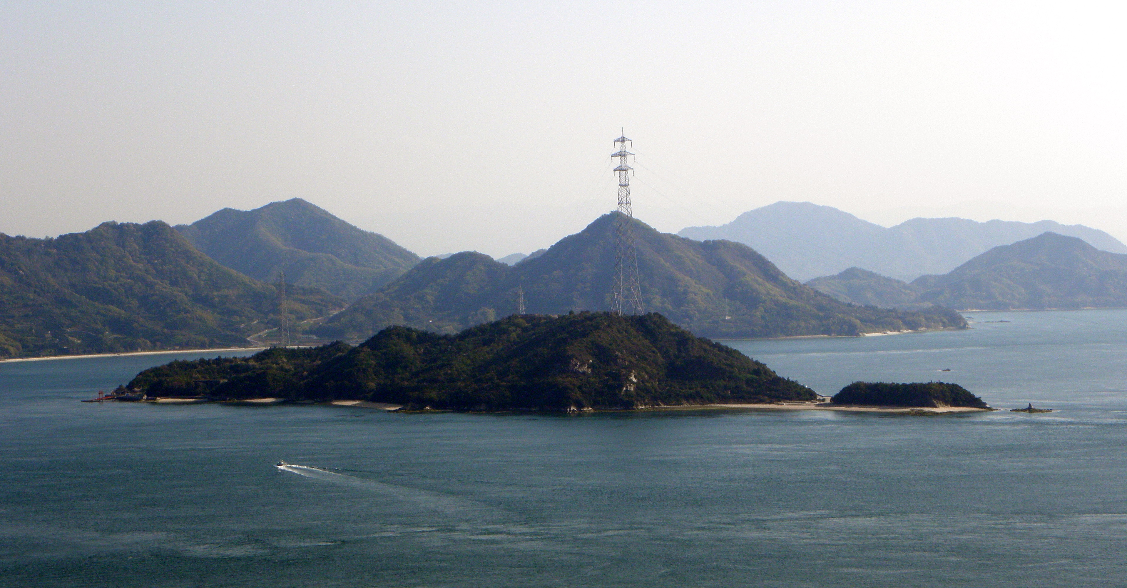 A picture of Okunoshima taken from Kurotaki-yama